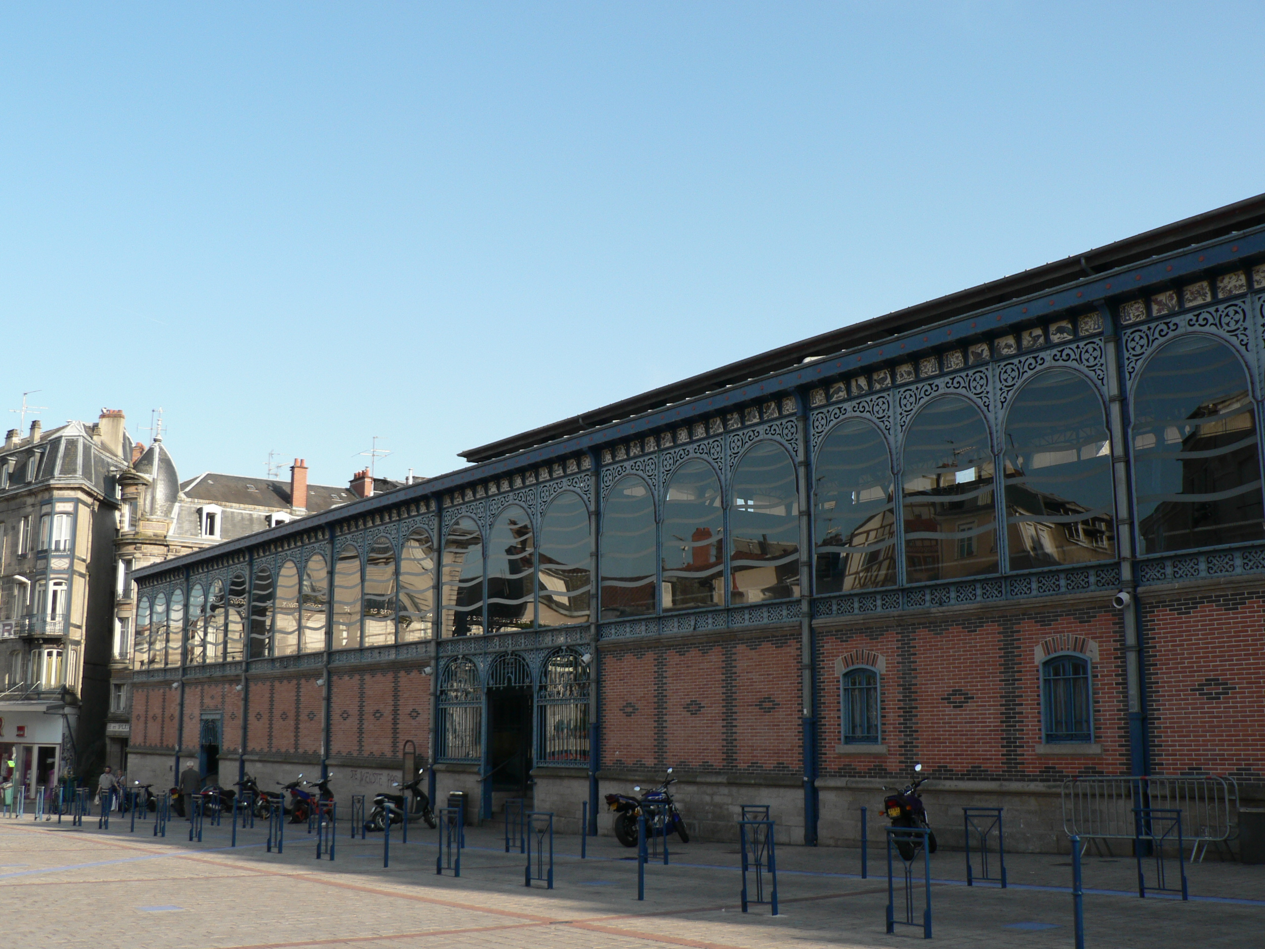 Markets (les Halles), Limoges, France